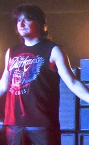 Ed Graham with The Darkness live in Coventry June 4th 2013.